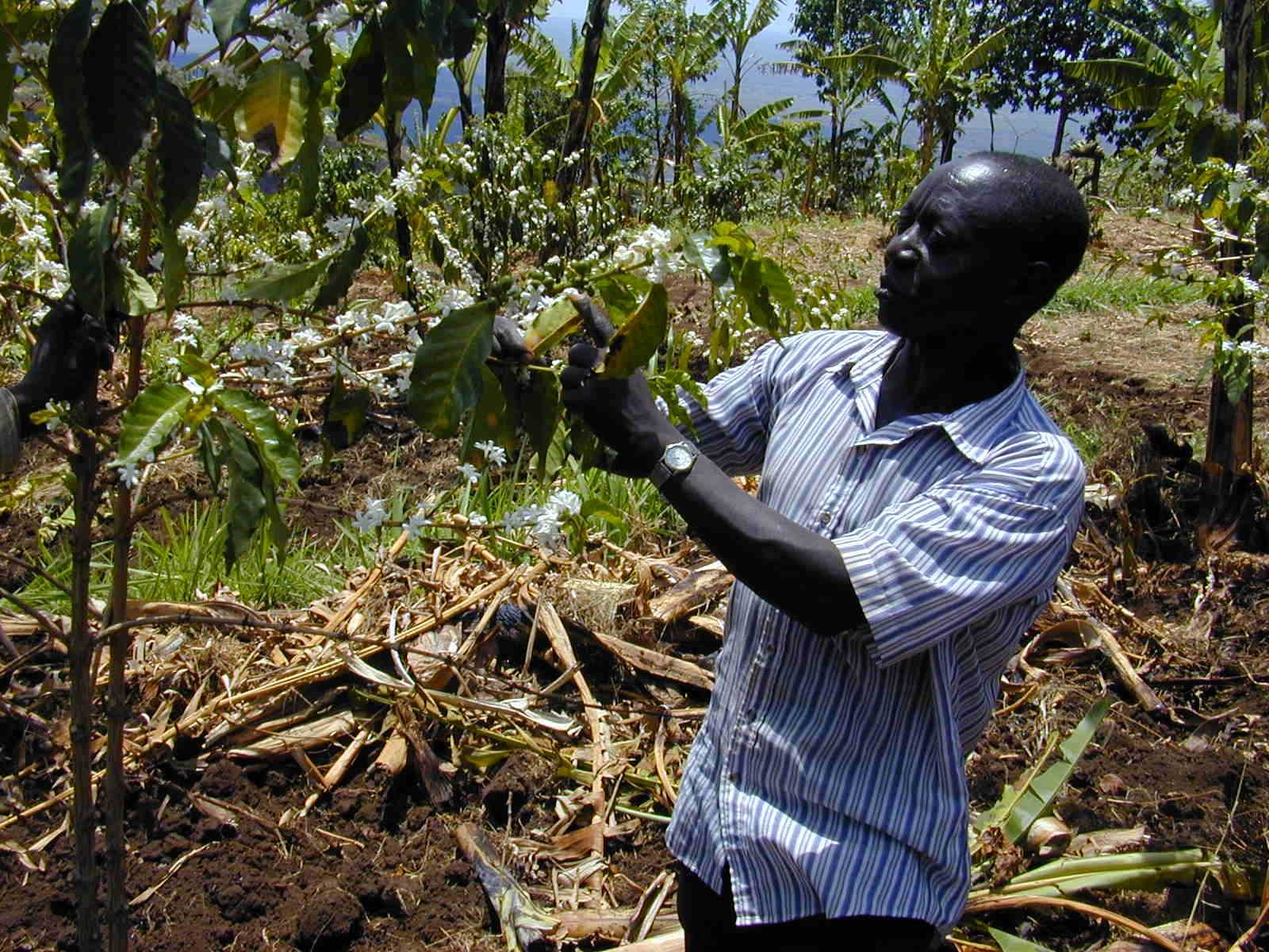 Mr Masiga, Gumutindo farmer, March 2000 This is an image of "African people at work" from Uganda